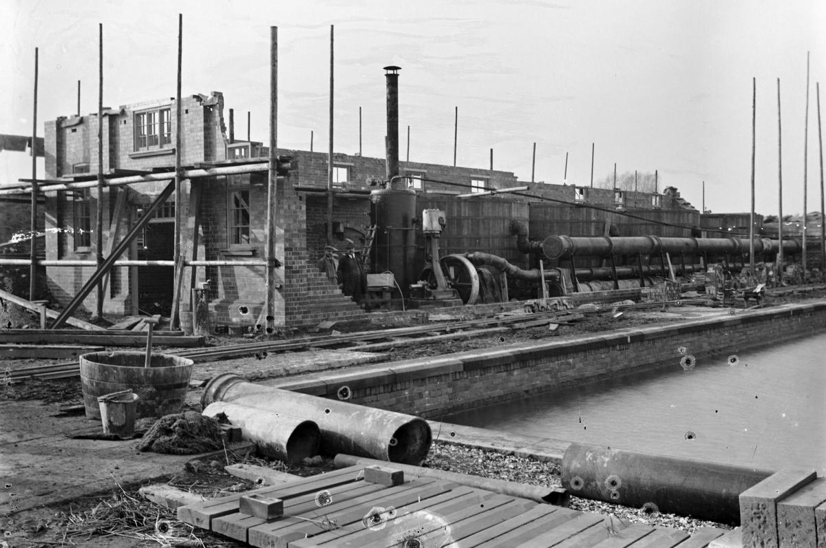 York Waterworks Company - Construction of ‘rapid gravity’ filters at the Acomb Landing Treatment Works using a Decauville railway in 1902 (collection of the Yorkshire architectural and York Archaeological Society, YAYAS)